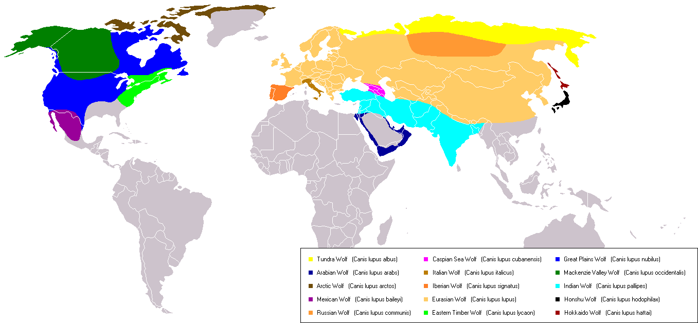 Original distribution of each gray wolf (Canis lupus) subspecies with English and Latin names